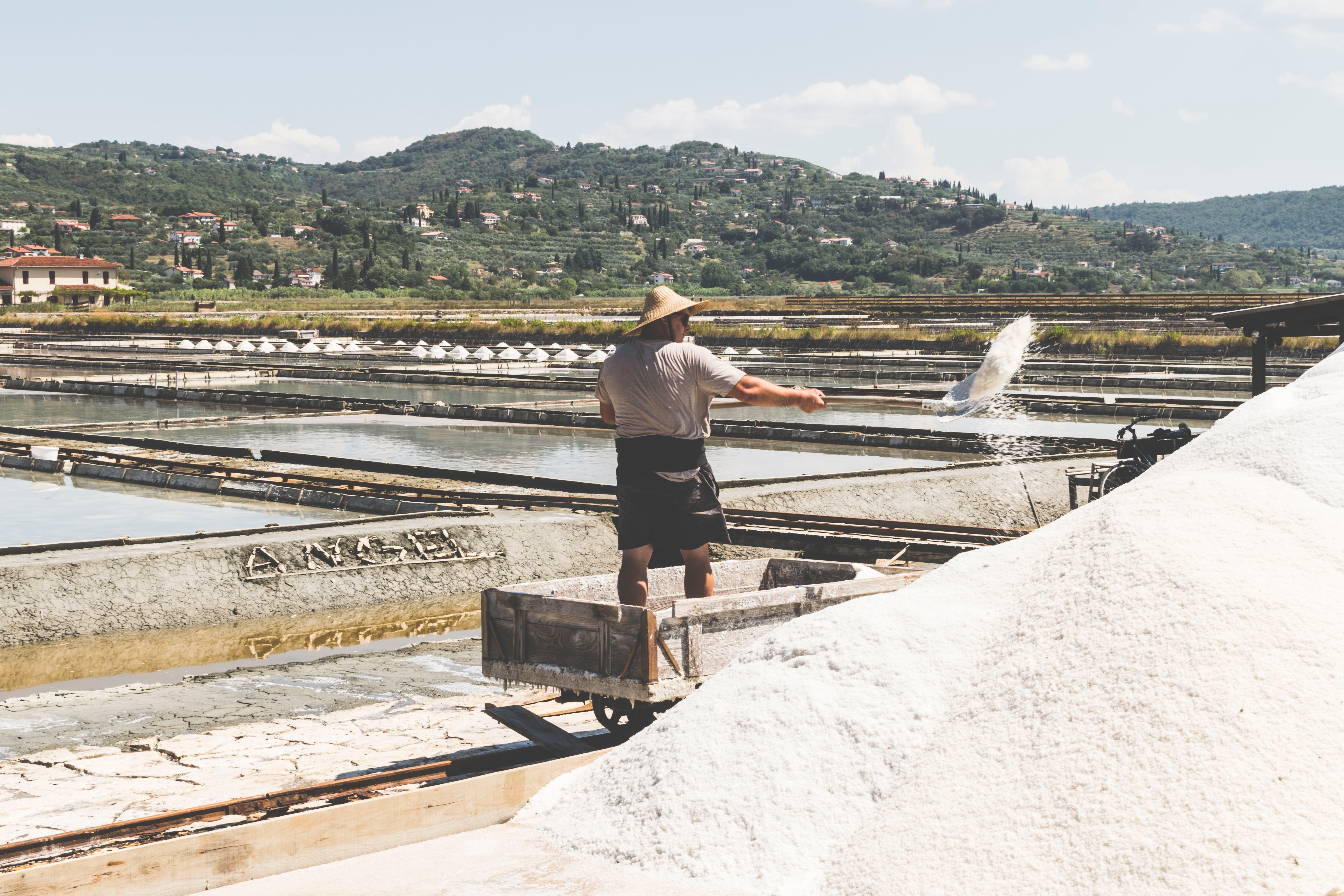 Sečovlje Salina.